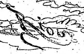 signature of Édouard Riou